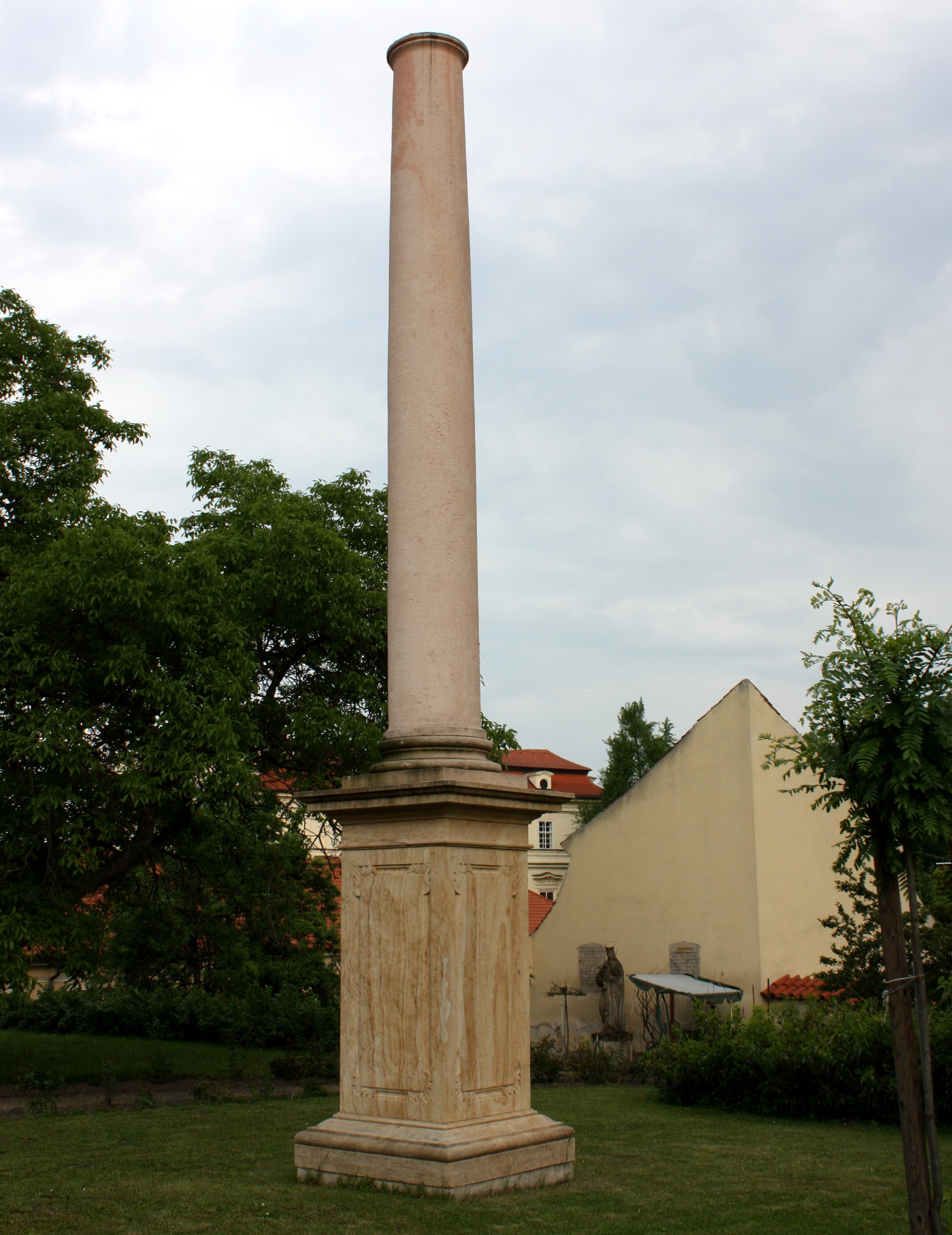 Gardens of Hospital "pod Petřínem", Prague.